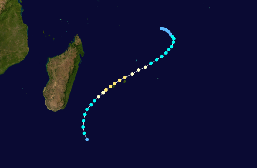 Cyclone Firinga (1989) track. Uses the color scheme from the Saffir-Simpson Hurricane Scale.